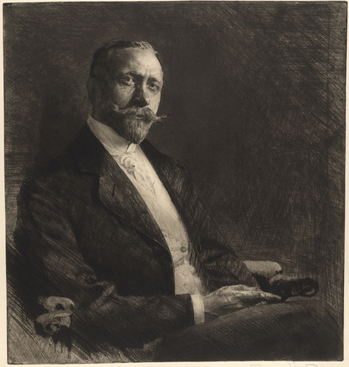 Gaston Carlin in einer Radierung von Ferdinand Schmutzer.